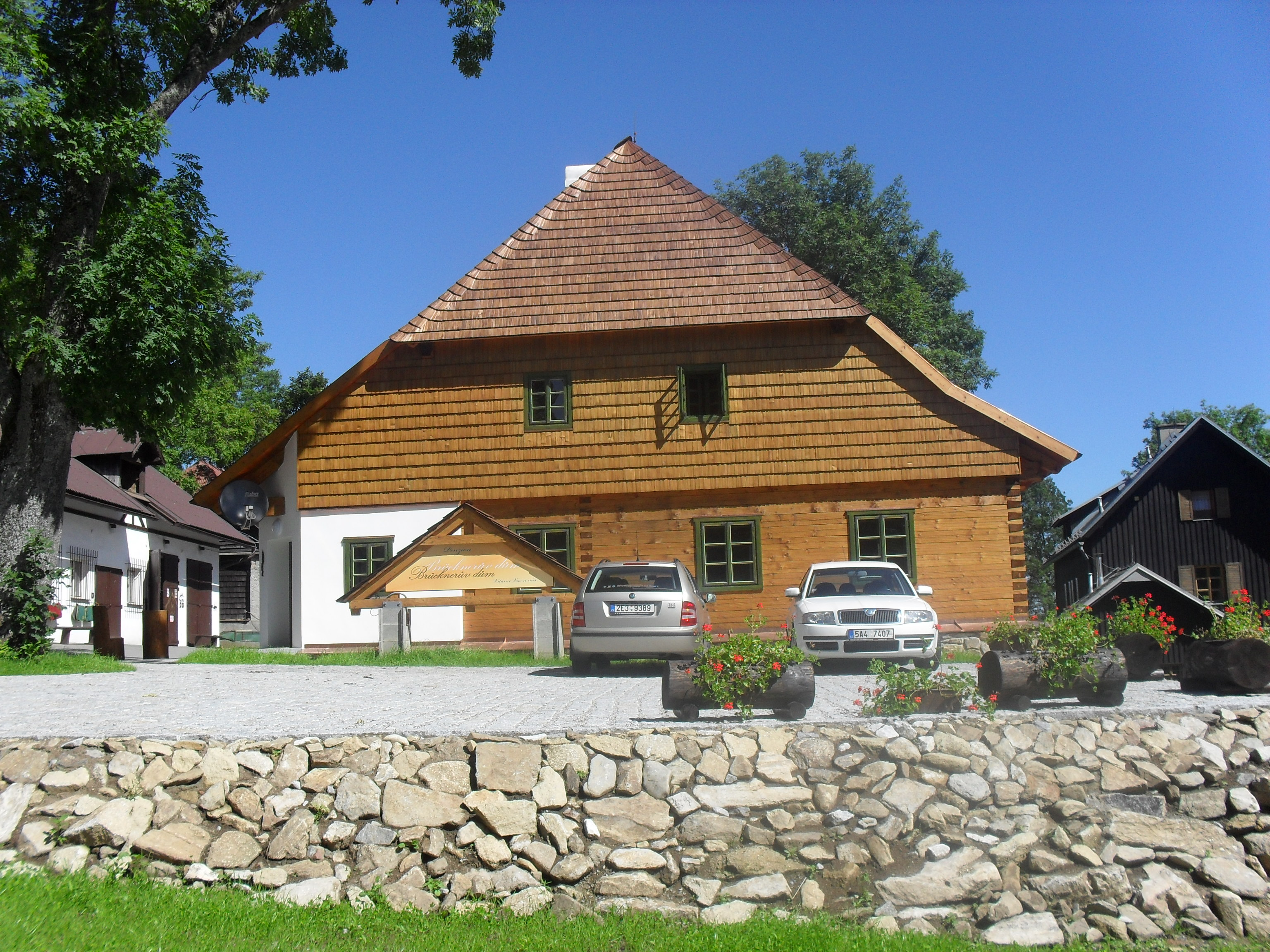 Pension "Brücknerův dům" (Brükner House)